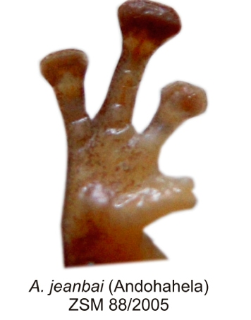 Views of palmar surfaces of male of Anodonthyla jeanbai frog, showing detail of first finger and prepollex.